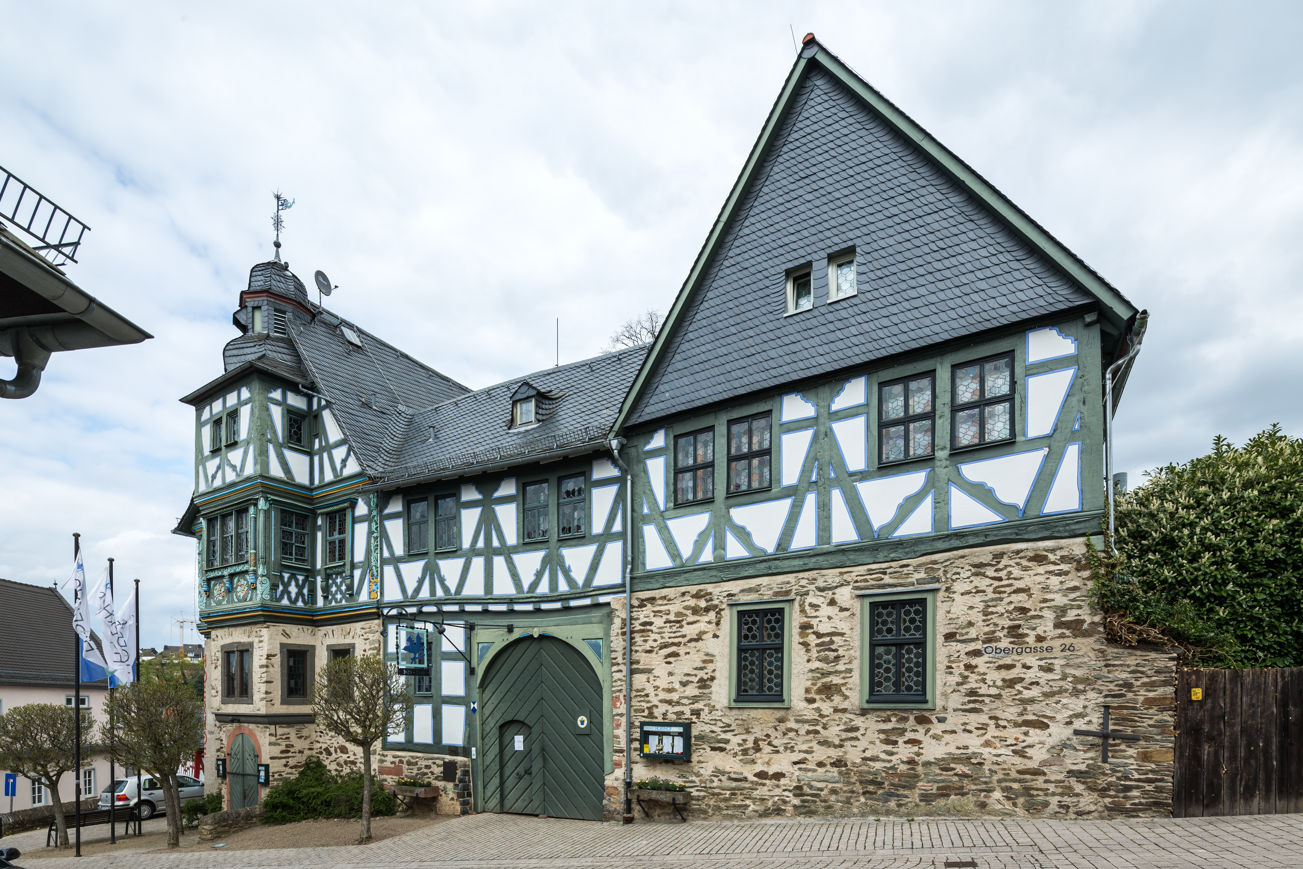 Idstein: Höerhof (Höer Court) as seen from the southwest